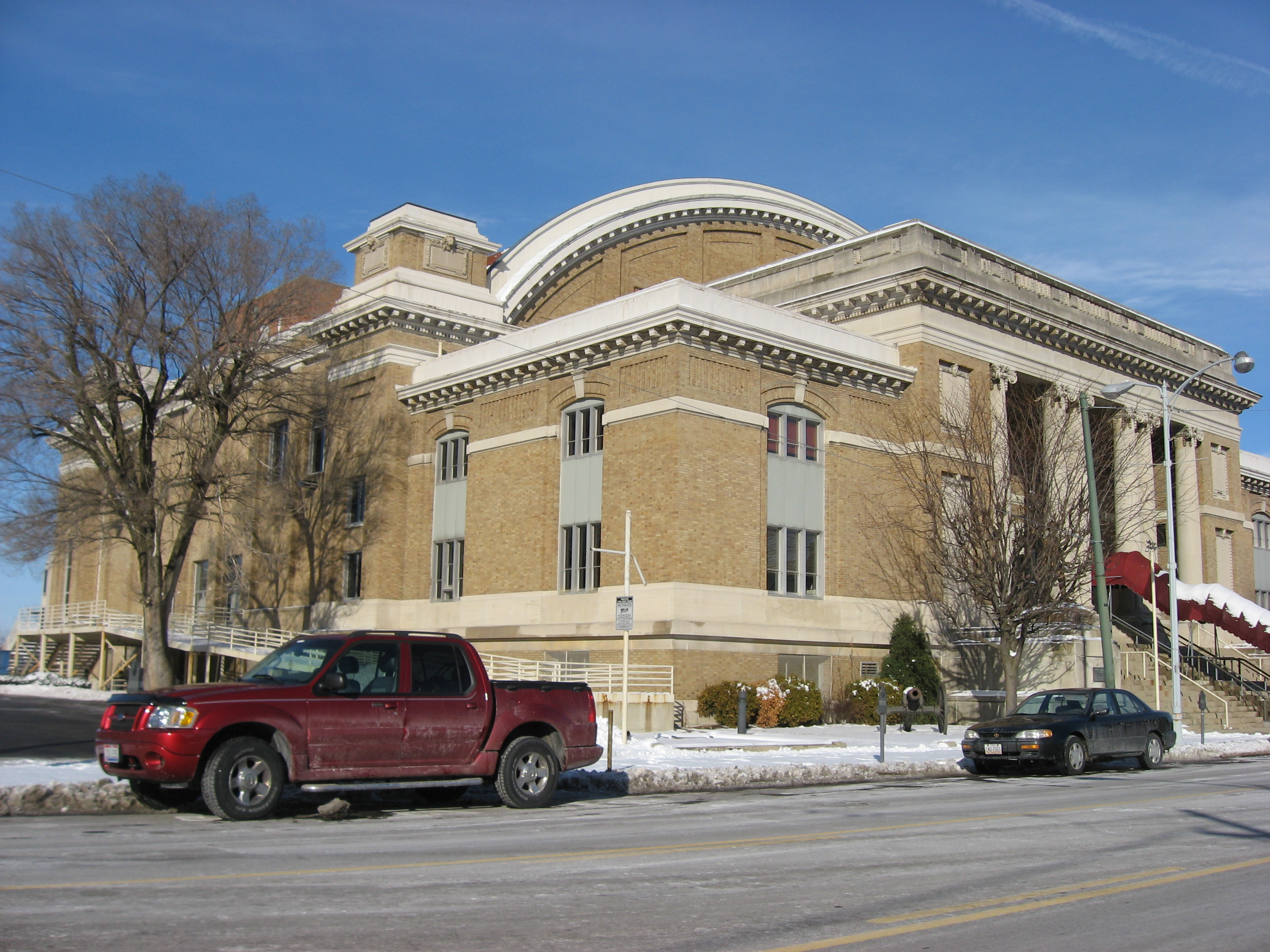 Front of Memorial Hall, located at 125 E. First Street in downtown Dayton, Ohio, United States. Built in 1907, it is listed on the National Register of Historic Places.